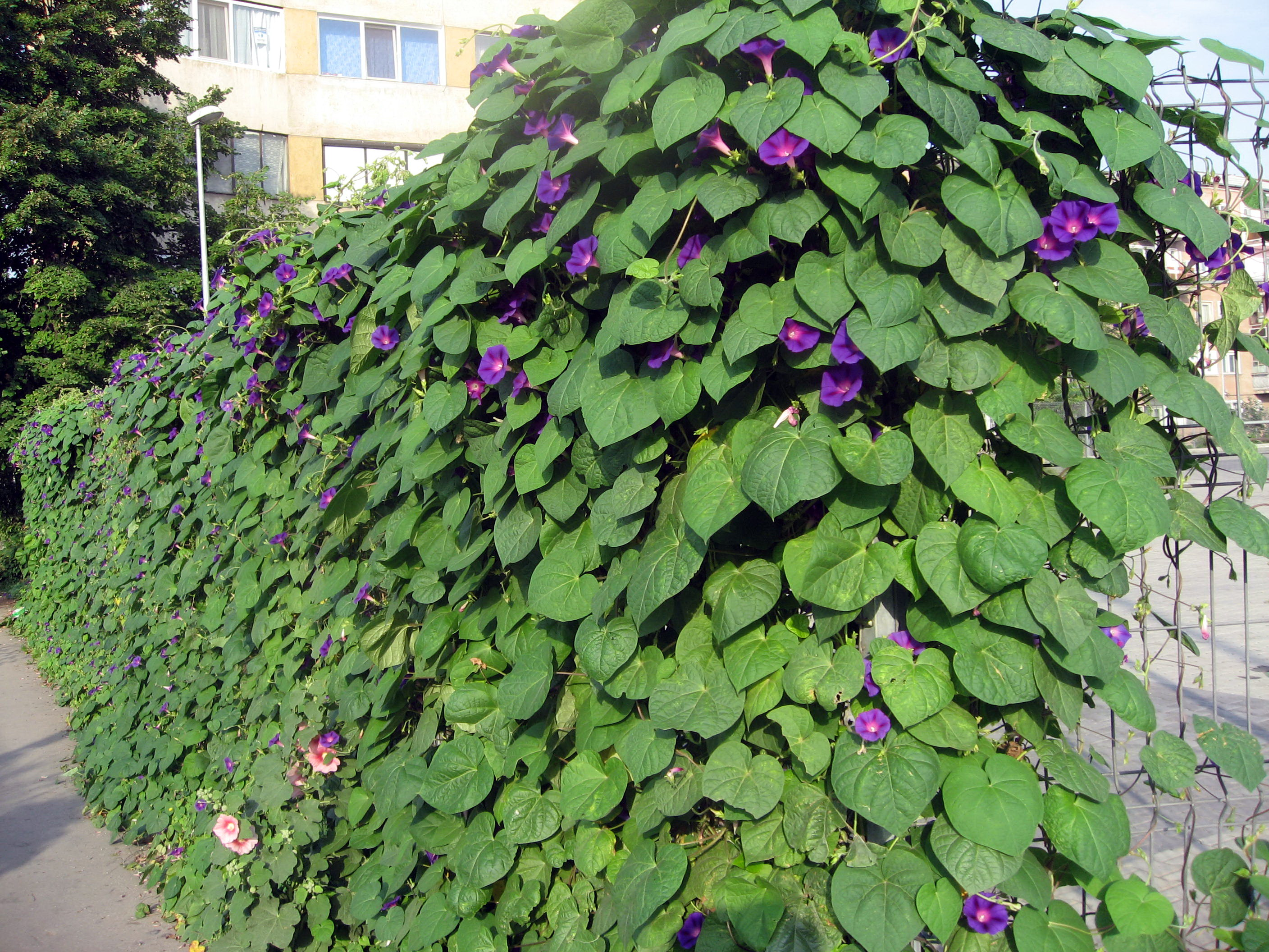 Ipomoea purpurea in Deva